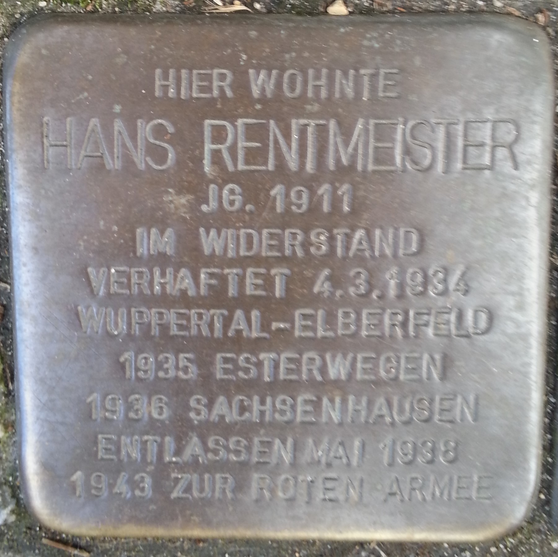 Stolperstein for Hans Rentmeister in Oberhausen-Sterkrade